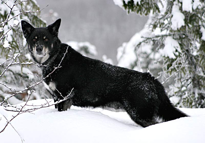 A 3 year old Lapponian Herder/Lapland Reindeer Dog